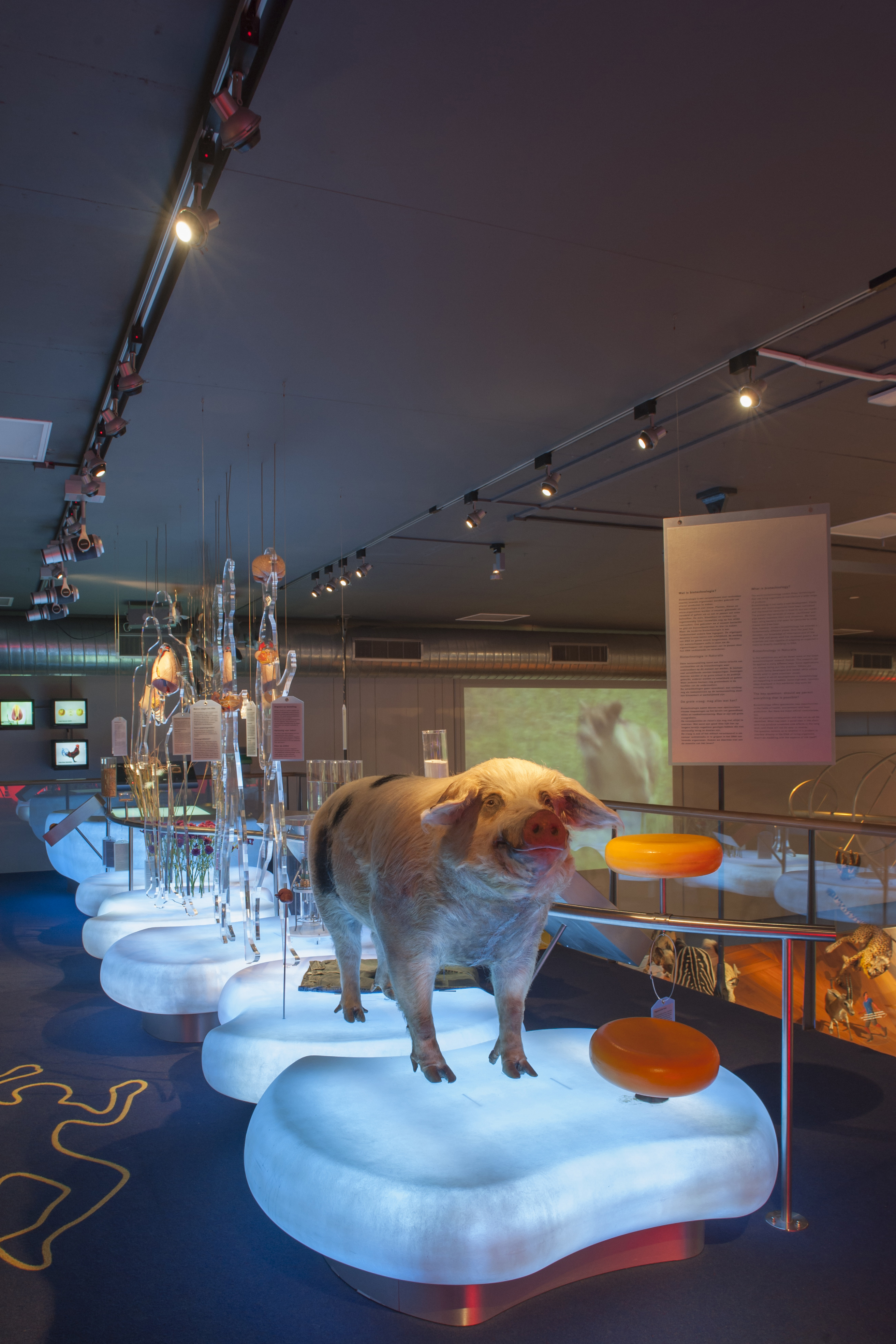 Natural history museum Naturalis, Leiden. Exhibition Biotechnology. Overview. Transgenic pig voor cheese.